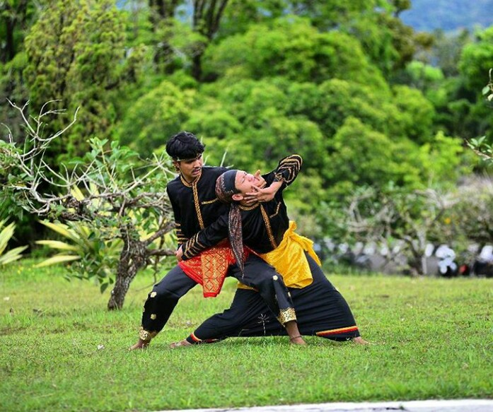 silek harimau minangkabau